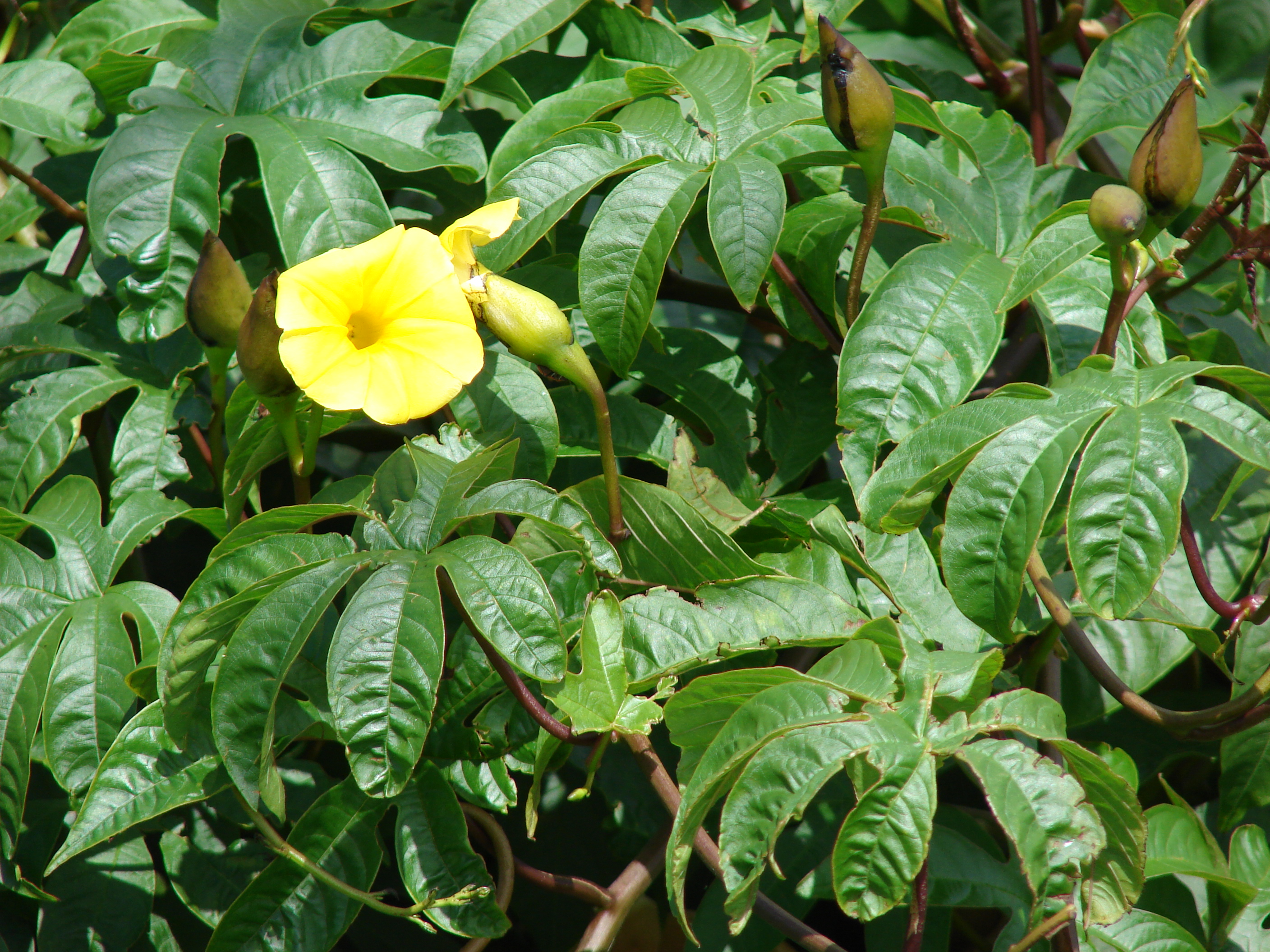 Merremia tuberosa (flowers and leaves). Location: Maui, Pukalani